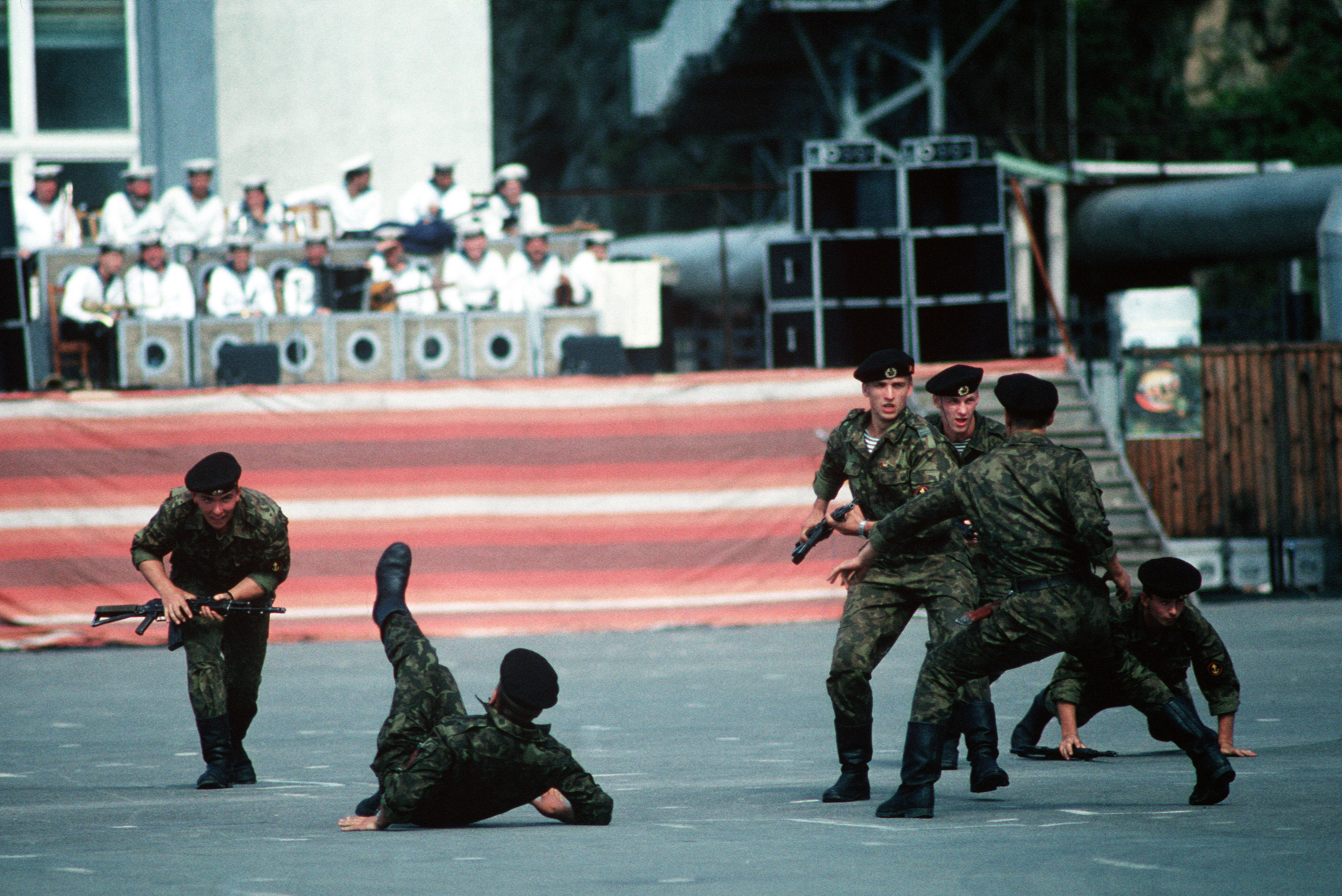 Soviet marines put on a hand-to-hand combat demonstration during a military review held for Soviet citizens and visiting American sailors. The guided missile cruiser USS PRINCETON (CG 59) and the guided missile frigate USS REUBEN JAMES (FFG 57) are visiting Vladivostock as part of a United States/Soviet goodwill exchange program.